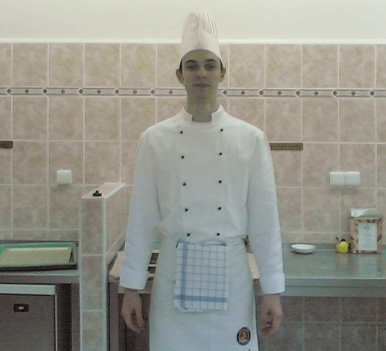 A cook